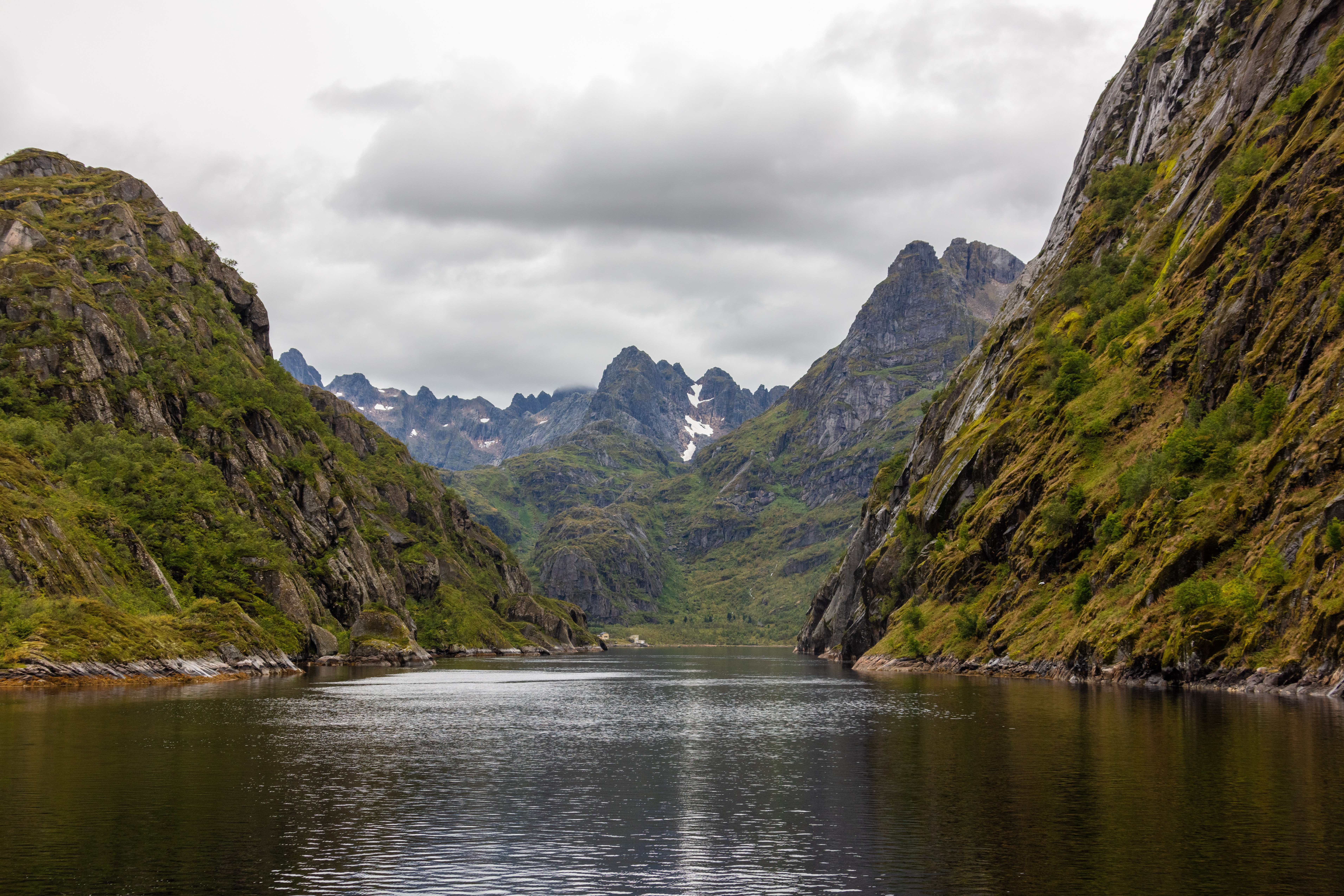 Trollfjord, Lofoten, Norway